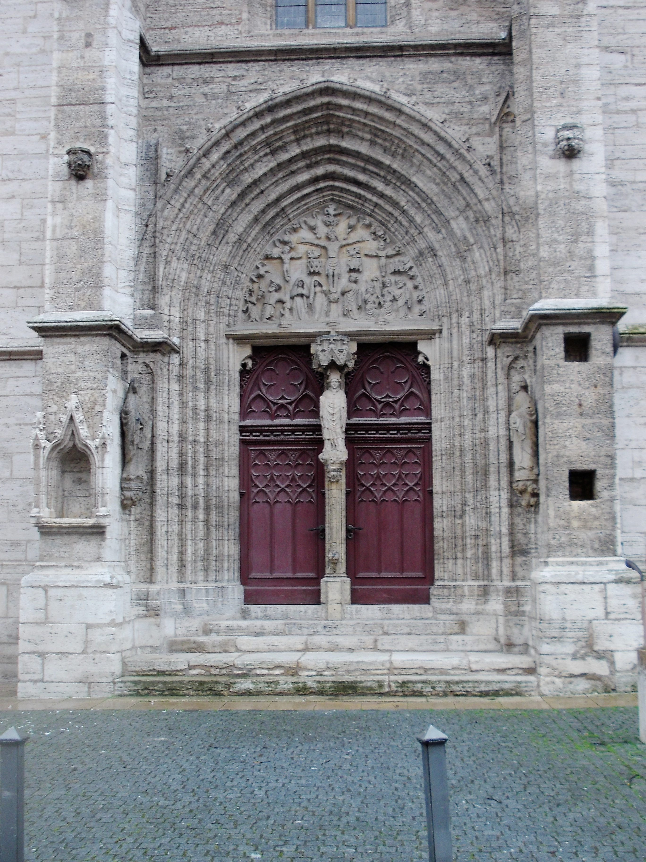 North portal of the Market Church St. Bonifacii in Bad Langensalza (Unstrut-Hainich-Kreis, Thuringia)